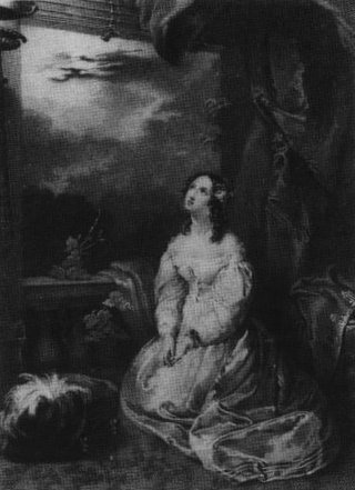 Illustration of Juliet for Mary Shelley's story "Transformation" in The Keepsake (1830)